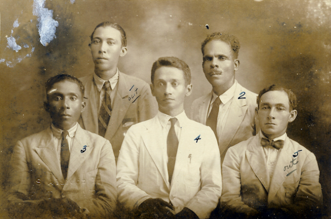 Leaders of the worker strike that precipitated the Banana Massacre. From left to right: Pedro M. del Río, Bernardino Guerrero, Raúl Eduardo Mahecha, Nicanor Serrano and Erasmo Coronell. Photo was recovered from the United Fruit Company archive in Panama.